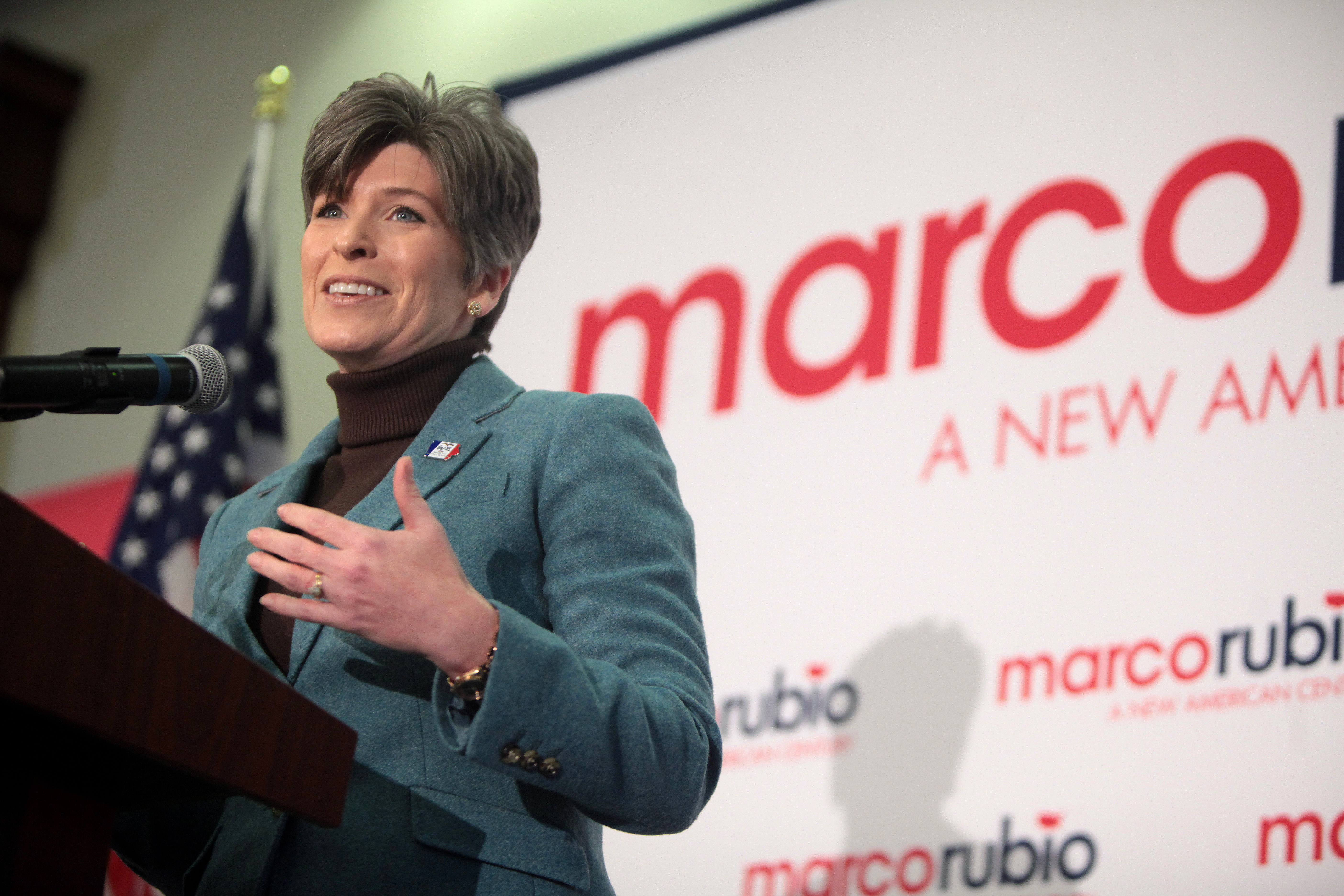 Joni Ernst speaking at a rally for Marco Rubio in Des Moines, Iowa.